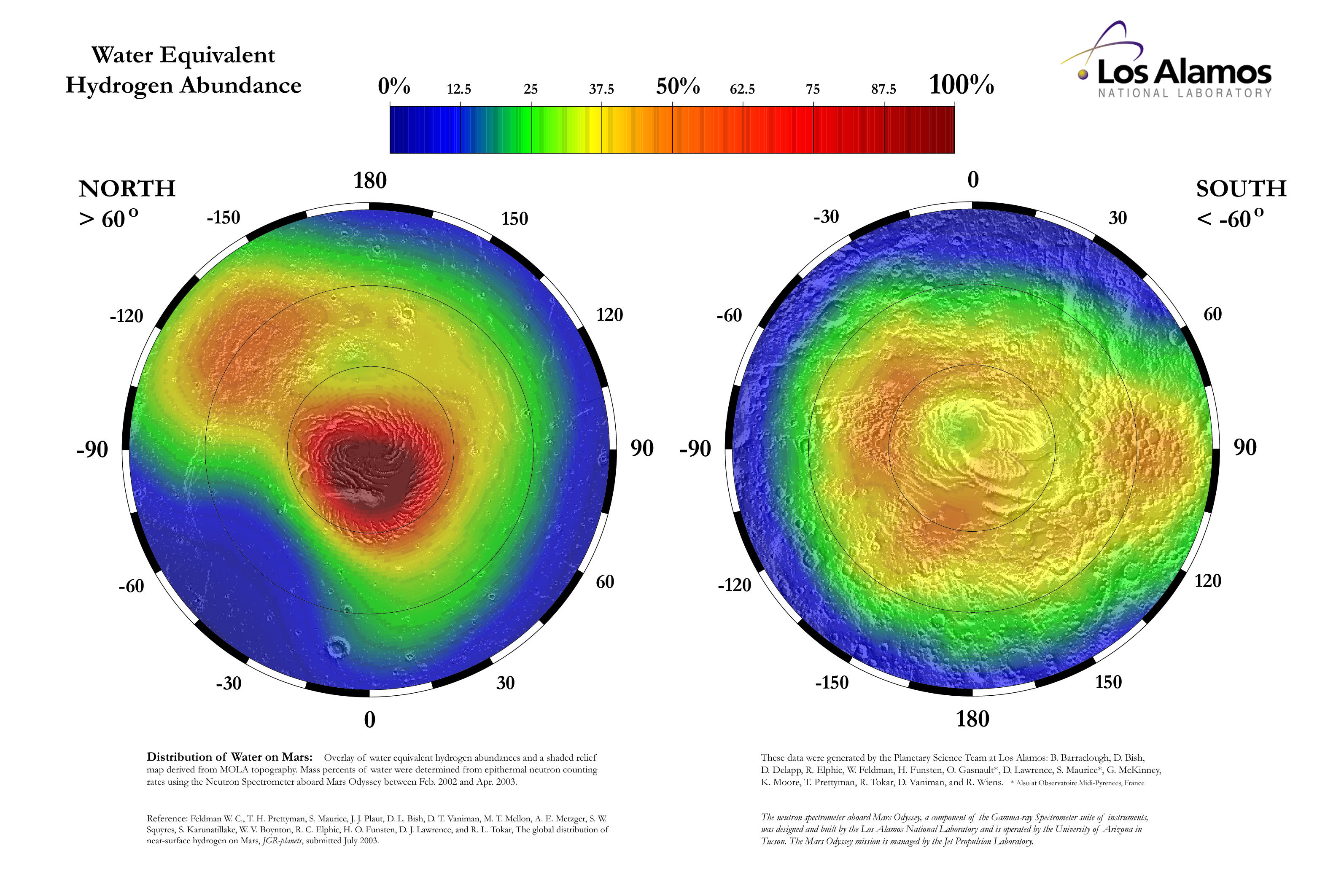 This map displays the proportion of water ice present in the upper meter of the Martian surface within 30 degrees of the poles. The percentages are derived through stochiometric calculations based on epithermal neutron fluxes. These fluxes were detected by the Neutron Spectrometer aboard the 2001 Mars Odyssey spacecraft. For more information see Feldman, W. C., Prettyman, T. H., Maurice, S., et al., Global distribution of near-surface hydrogen on Mars: Journal of Geophysical Research: Planets, v. 109, E09006